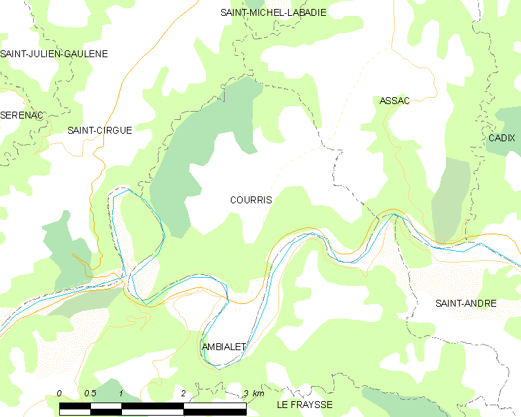 Map of French municipality Courris